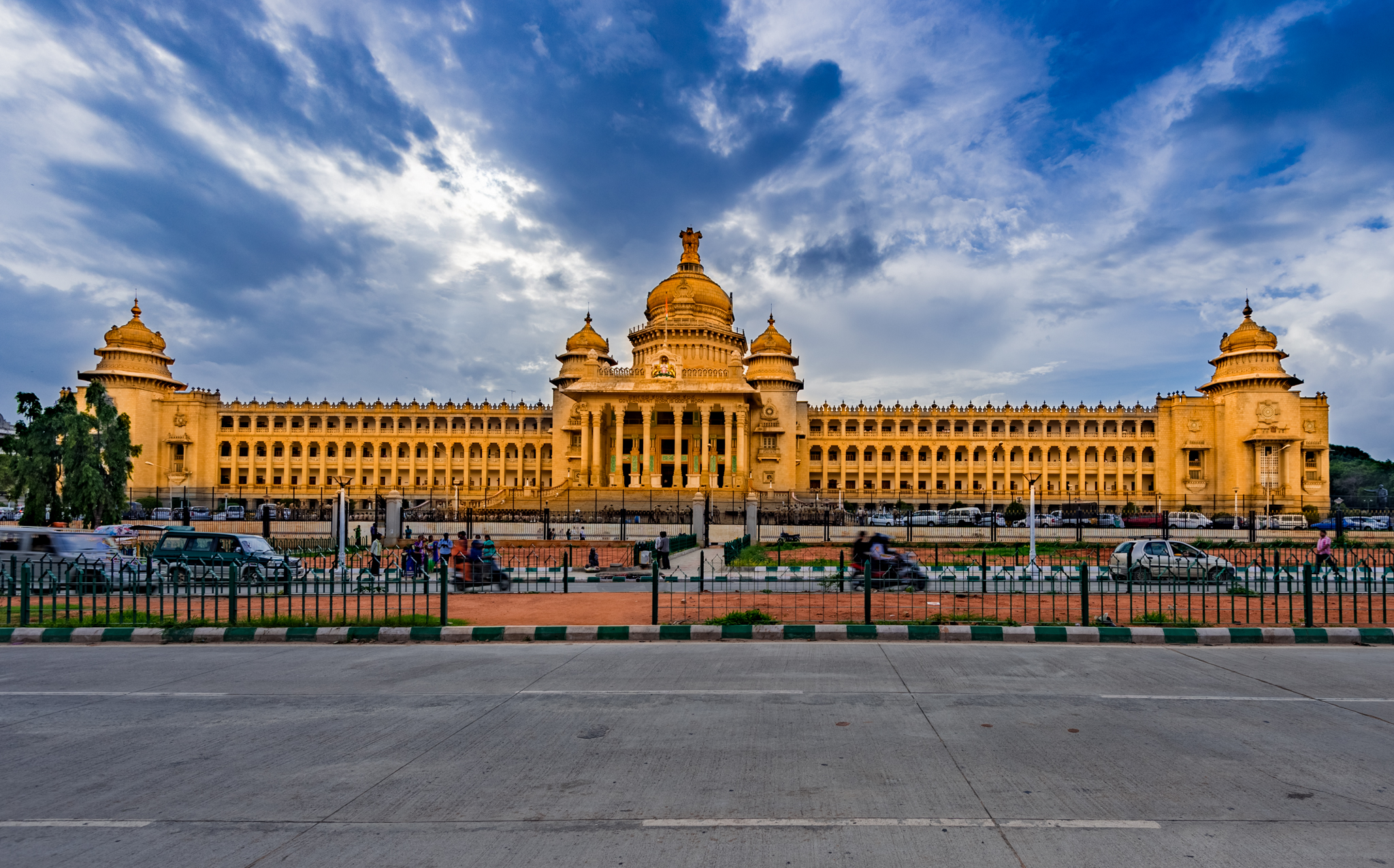 The Vidhana Soudha located in Bengaluru, is the seat of the state legislature of Karnataka. It is an imposing building, constructed in a style sometimes described as Mysore Neo-Dravidian, and incorporates elements of Indo-Saracenic and Dravidian styles. The construction was completed in 1956